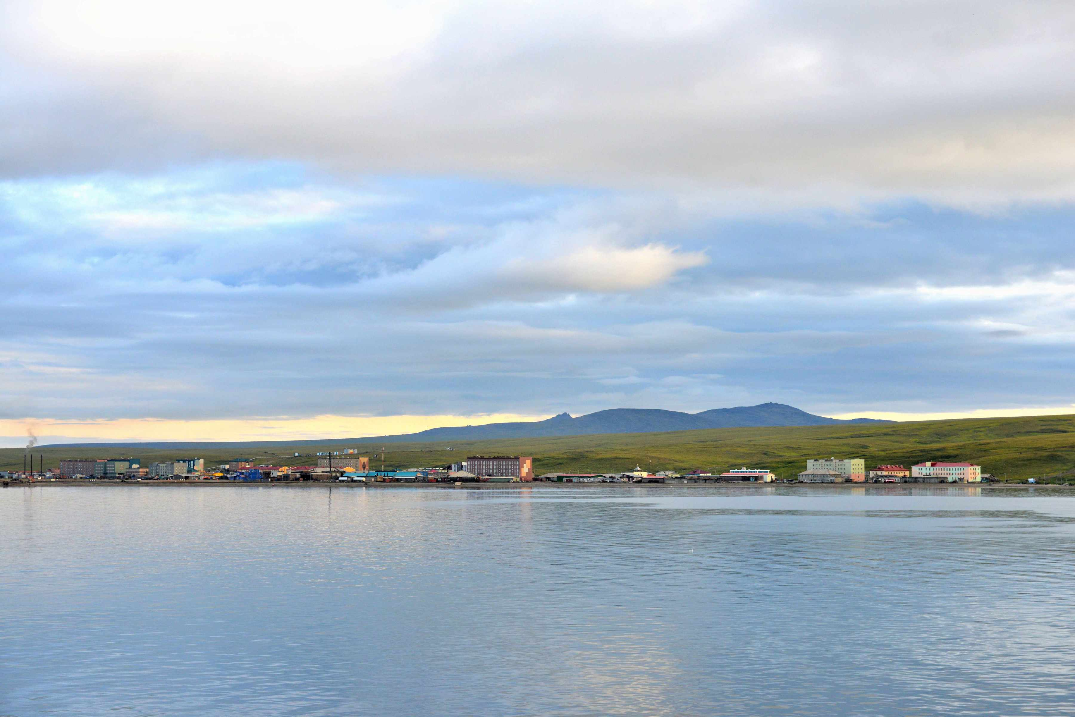 Lawrentiya, Lawrentiya Bay of Bering Strait (Chukotka, Russia; 65°35’10’’N, 171°0’45’’W)